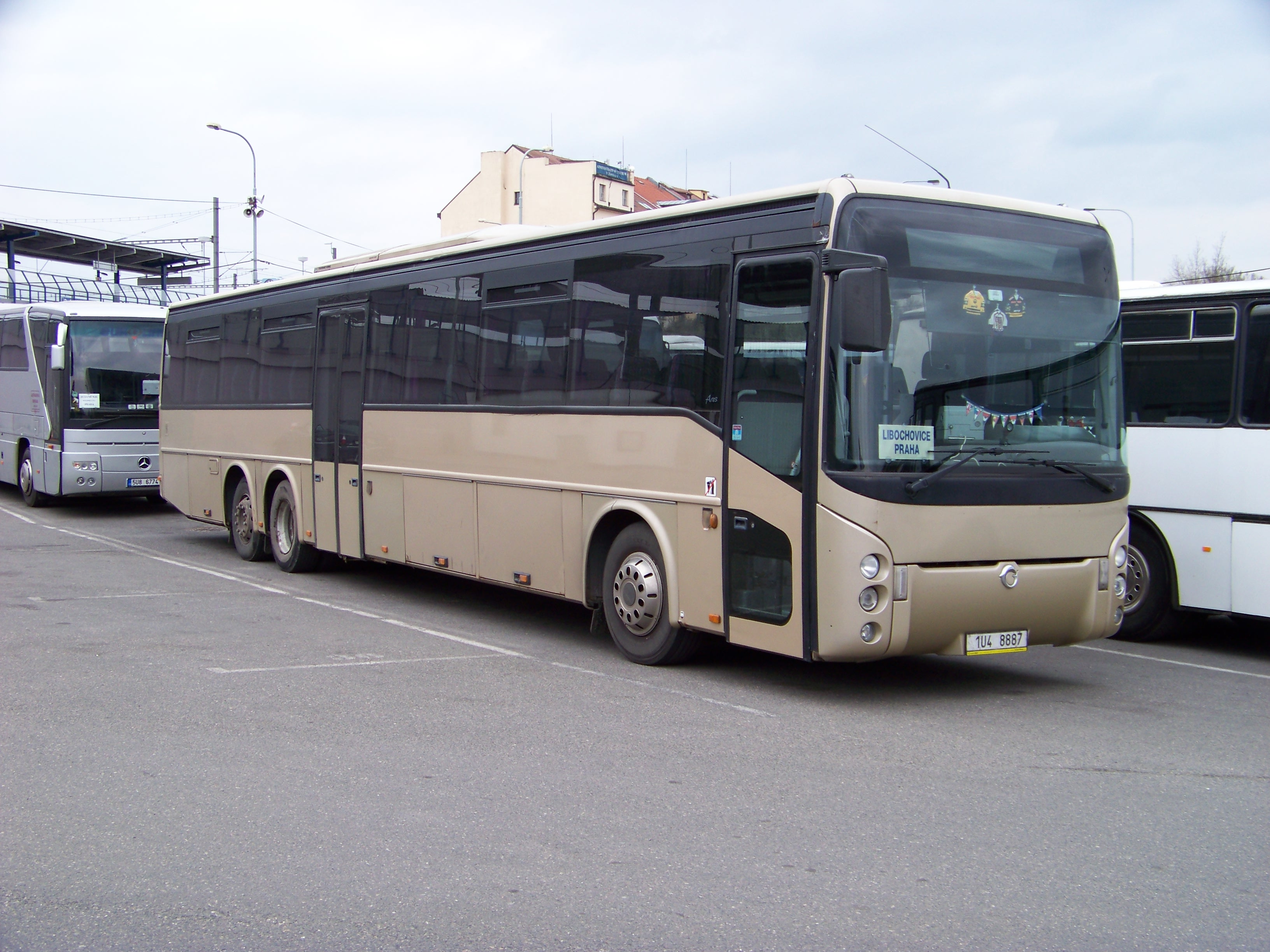 Prague-Holešovice, Czech Republic. Bus station Nádraží Holešovice, a bus of BUDOS - BUS.